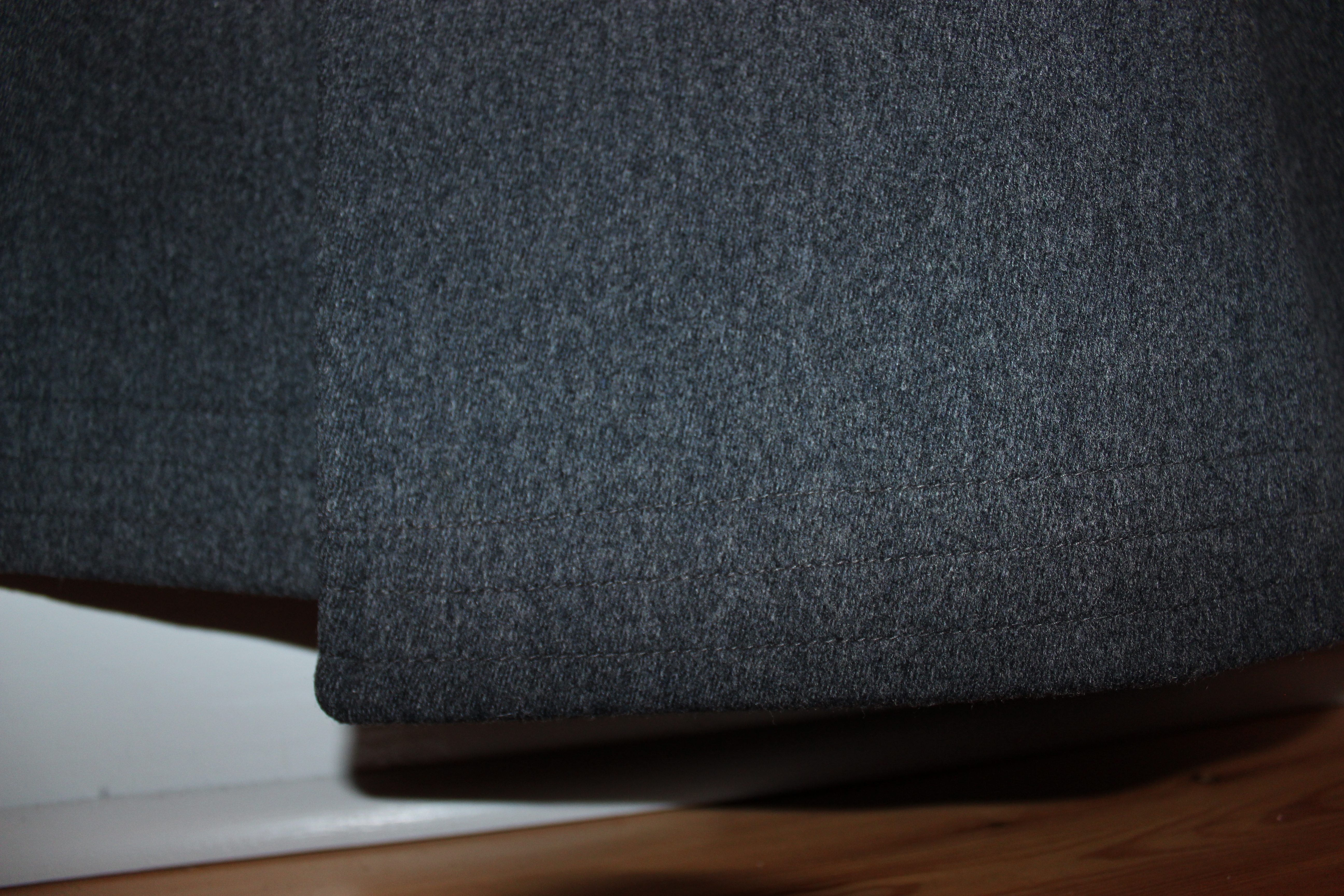 Detail of the stitching on a covert coat